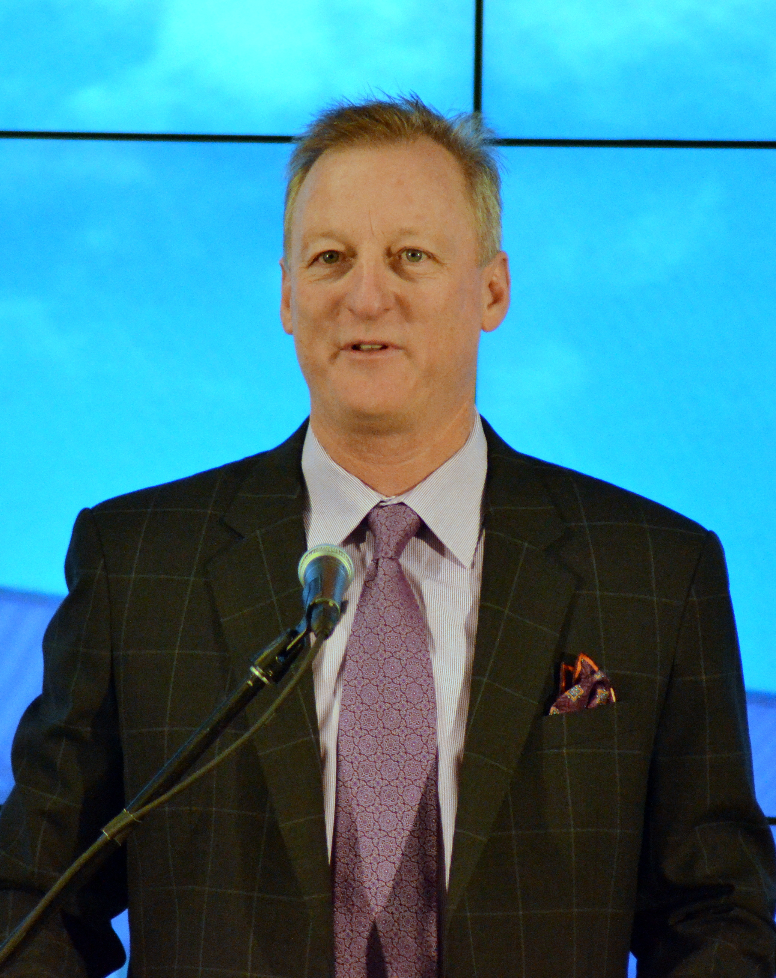 Mike Vaught speaks at a Grand Canyon University press conference